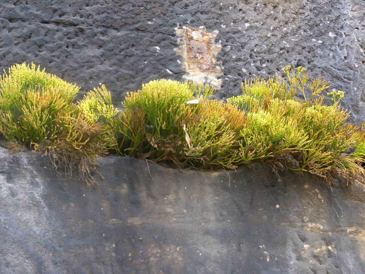 Psilotum nudum at the Sydney Opera House (forecourt to the south on Hawkesbury Sandstone), Australia